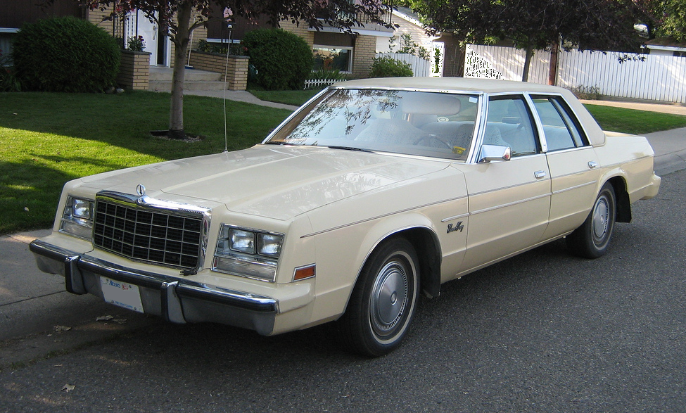 1980 Plymouth Gran Fury Salon